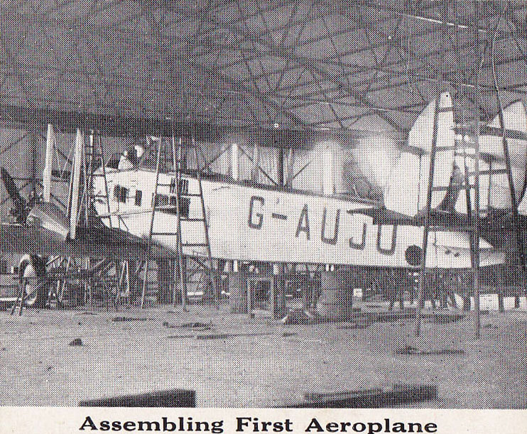 One of 6 small prints included in a souvenir pouch flown on first Perth to Adelaide airmail flight in 1929